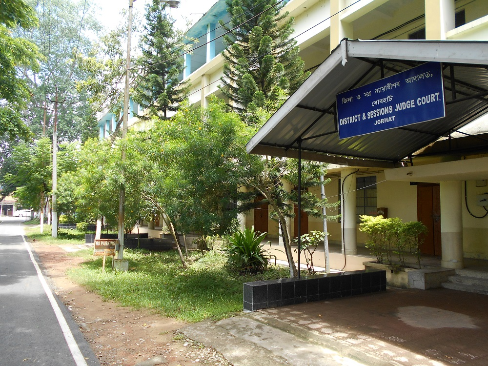 Jorhat District court Image